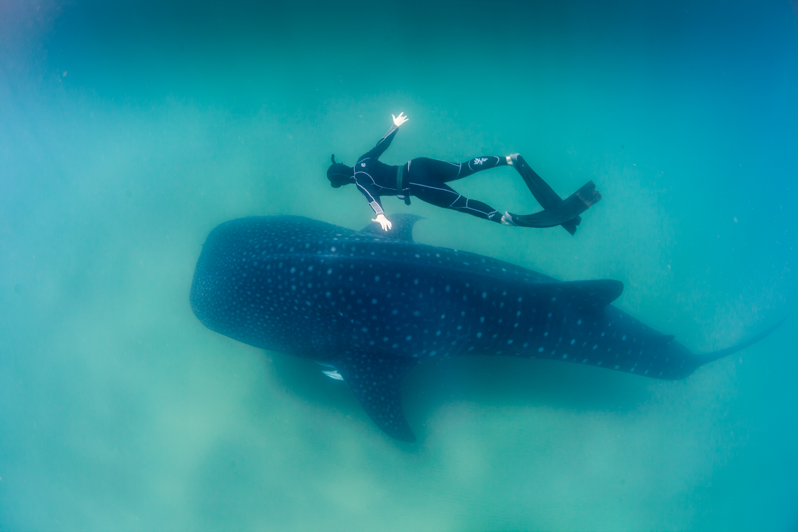 A free diver expresses the massive size of the shark with her outstretched hands as she swims above it